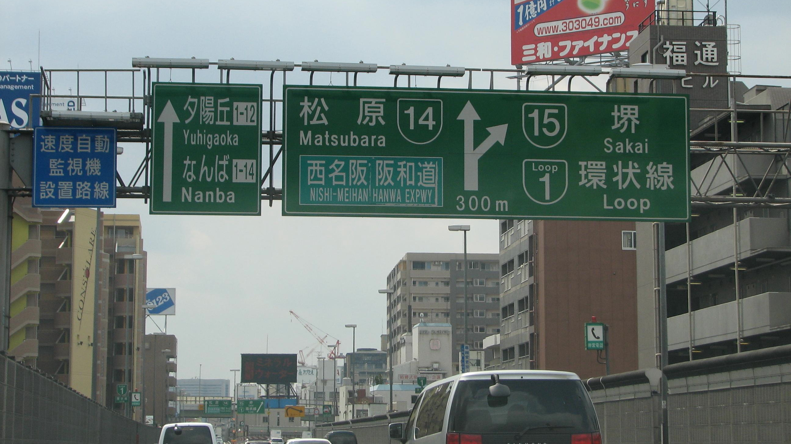 Hanshin Expressway Kōzu JCT